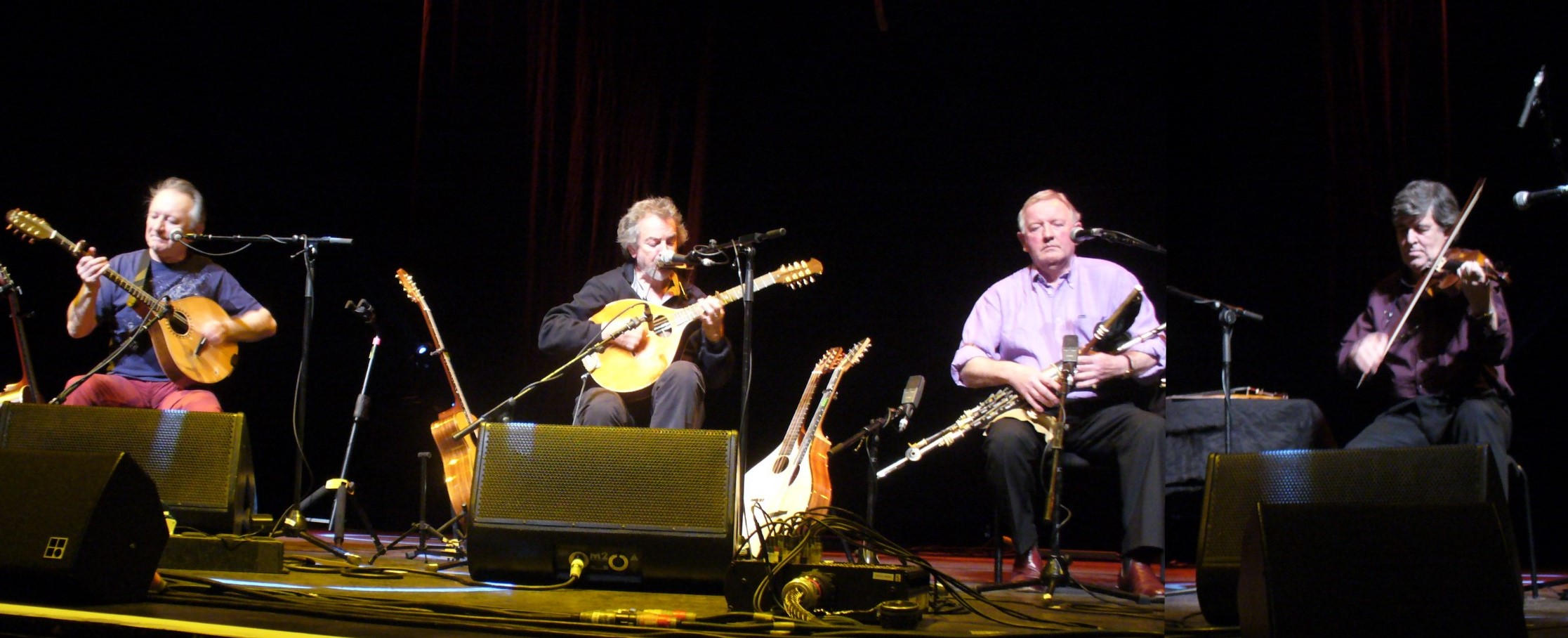 Donal Lunny, Andy Irvine, Liam O'Flynn, and Paddy Glackin at Celtic Connections in Glasgow, Scotland, 31 January 2012